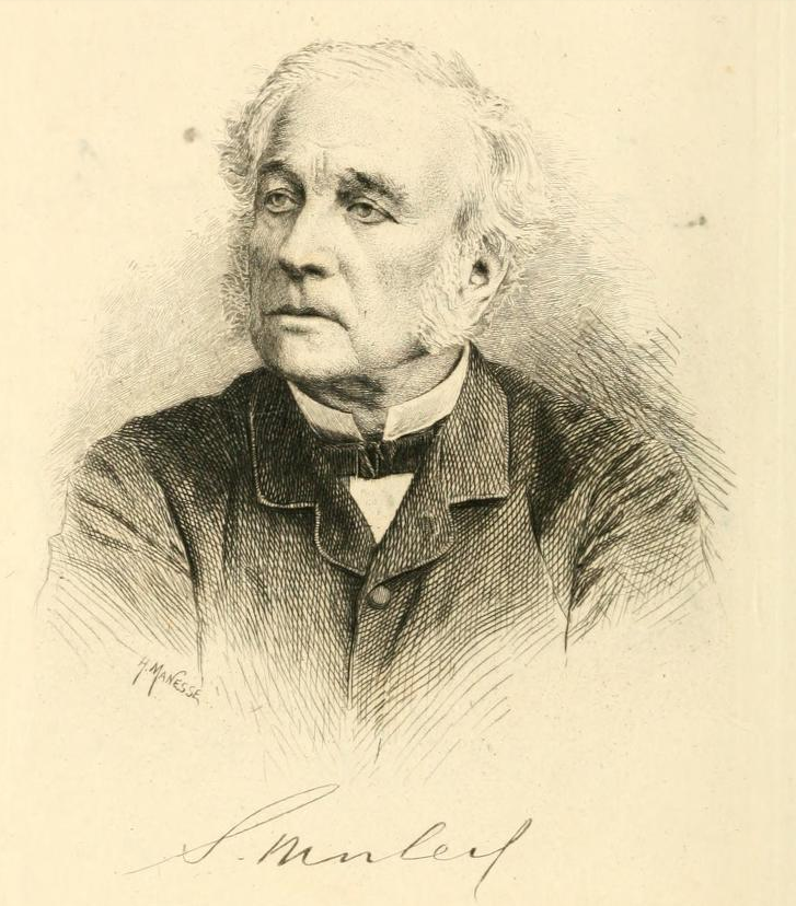 Samuel Morley (15 October 1809 – 5 September 1886), was an English woollen manufacturer, philanthropist, dissenter (Congregationalist), abolitionist, political radical, and Member of Parliament. Etching signed H. Manesse published in his biography, 1887.